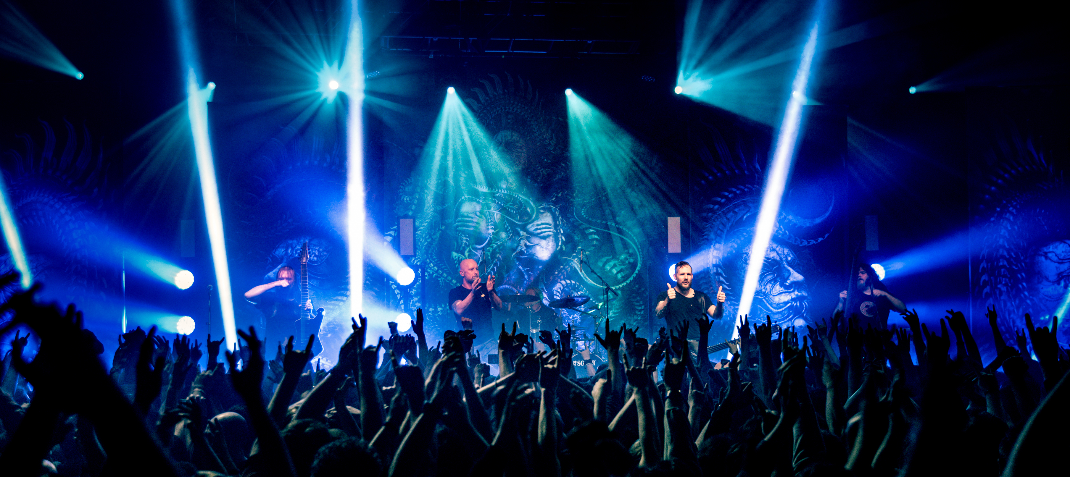 Meshuggah live in Dublin 2017